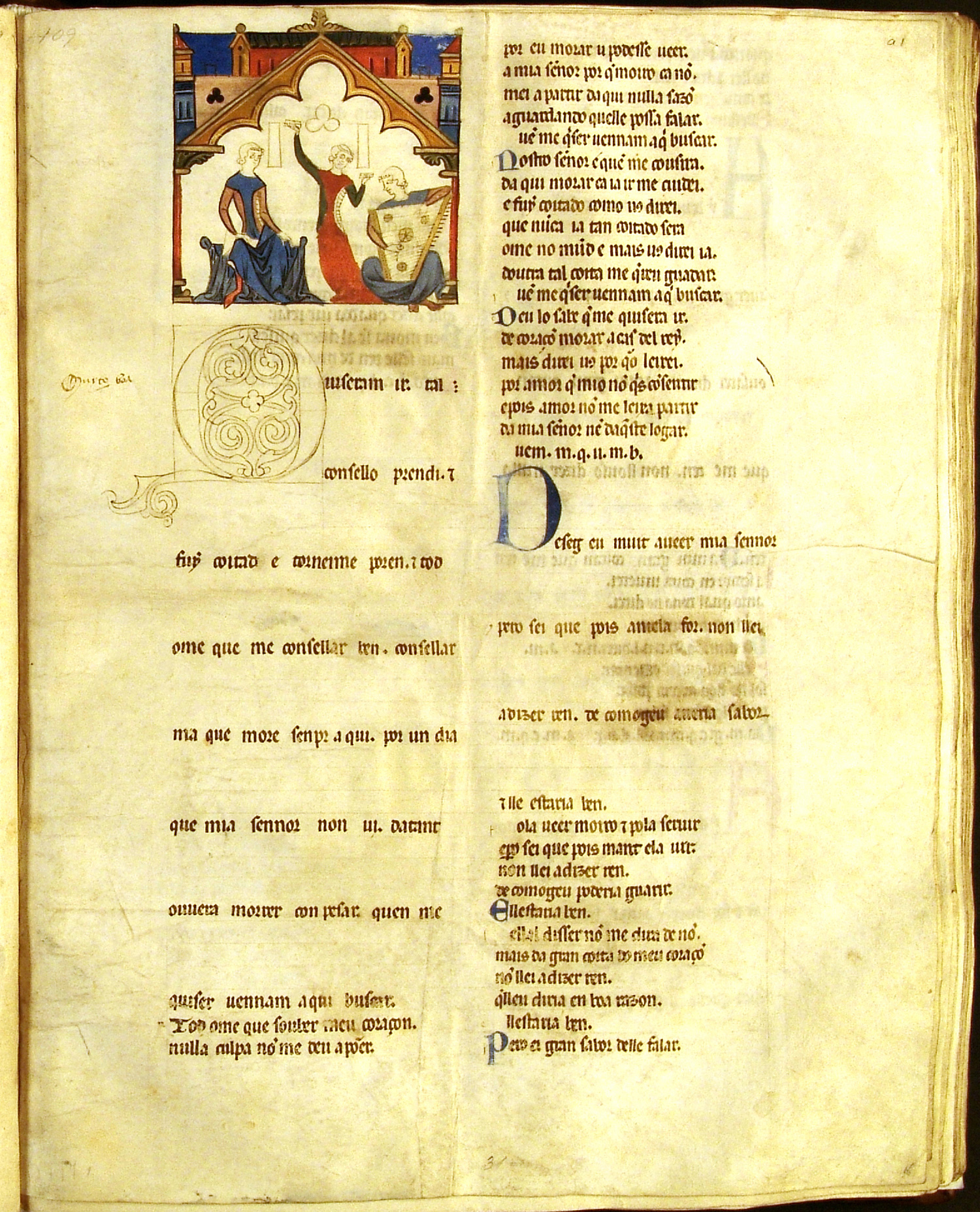 Cancioneiro da Ajuda manuscripts